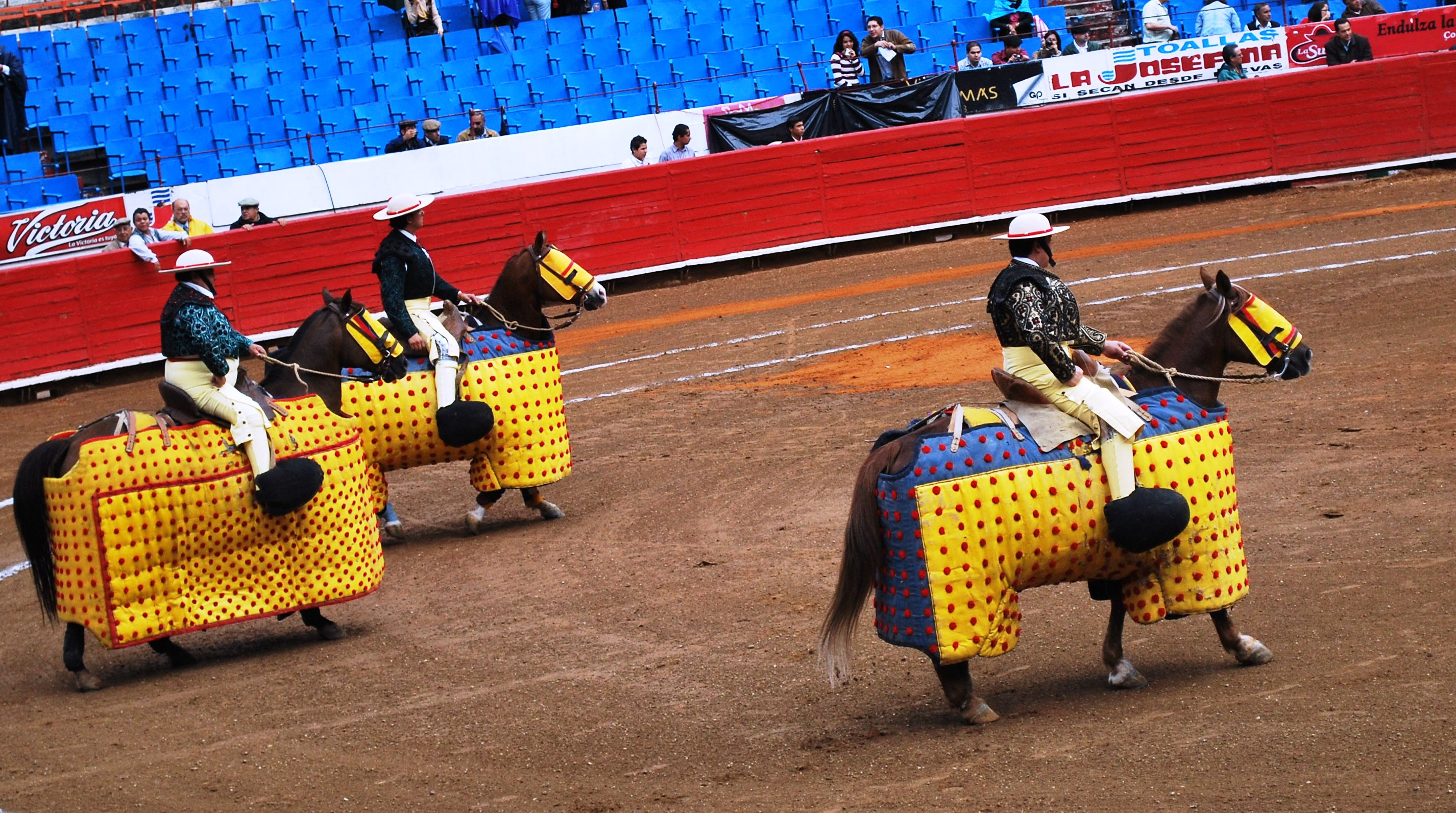 Picaderos entering the ring during the paseo of the 28 June 2009 event at the Plaza de Toros in Mexico City